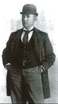 William Albert Mott (1864-1911), 4th mayor of Campbellton and deputy of Restigouche from 1895 to 1903.